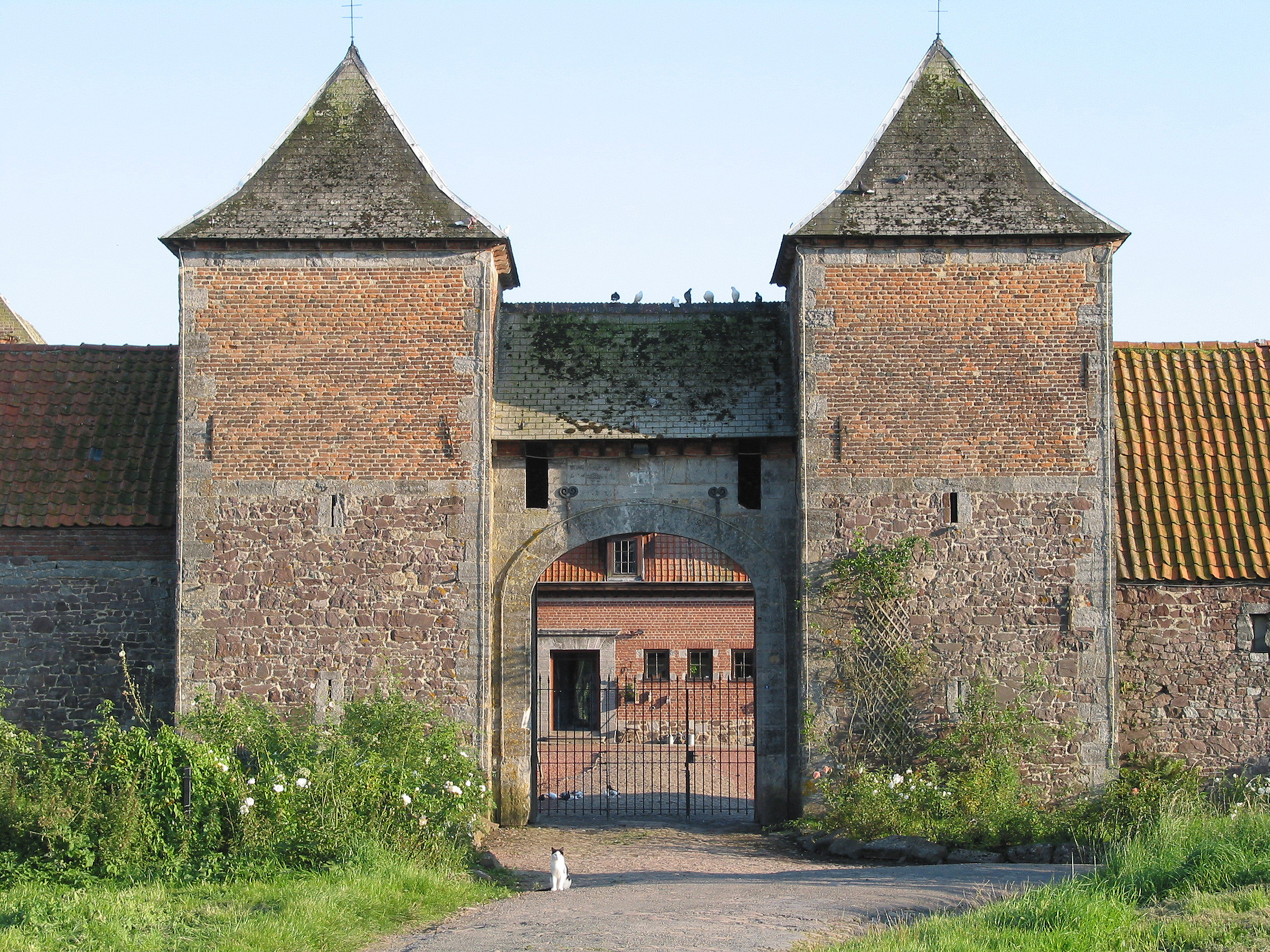 Fayt-le-Franc (Belgium), the fortified porch (XVIIIt century) of the Rampemont castle-farm.